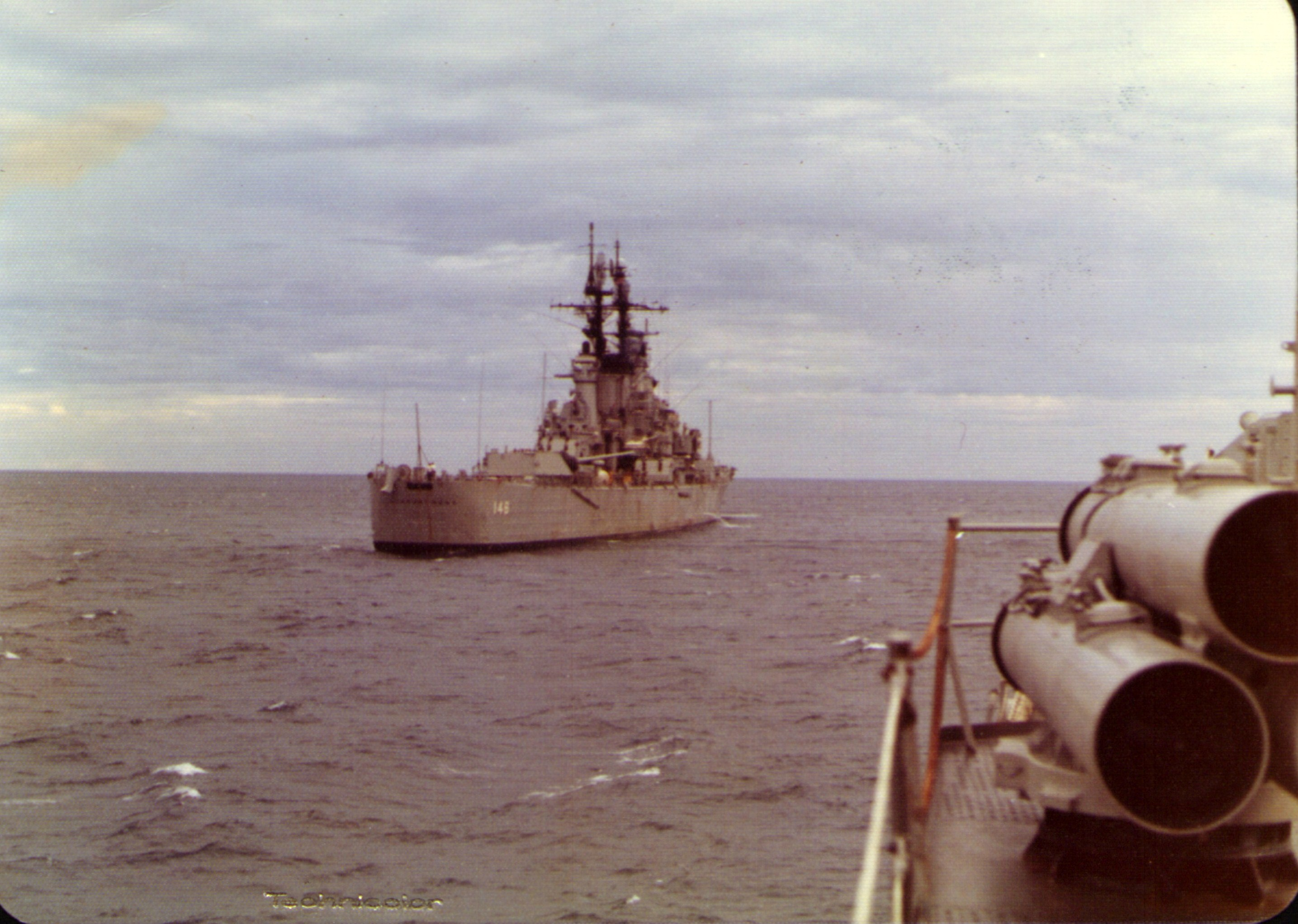 The U.S. Navy heavy cruiser USS Newport News (CA-148) as seen from the destroyer USS Hanson (DD-832), in 1972.